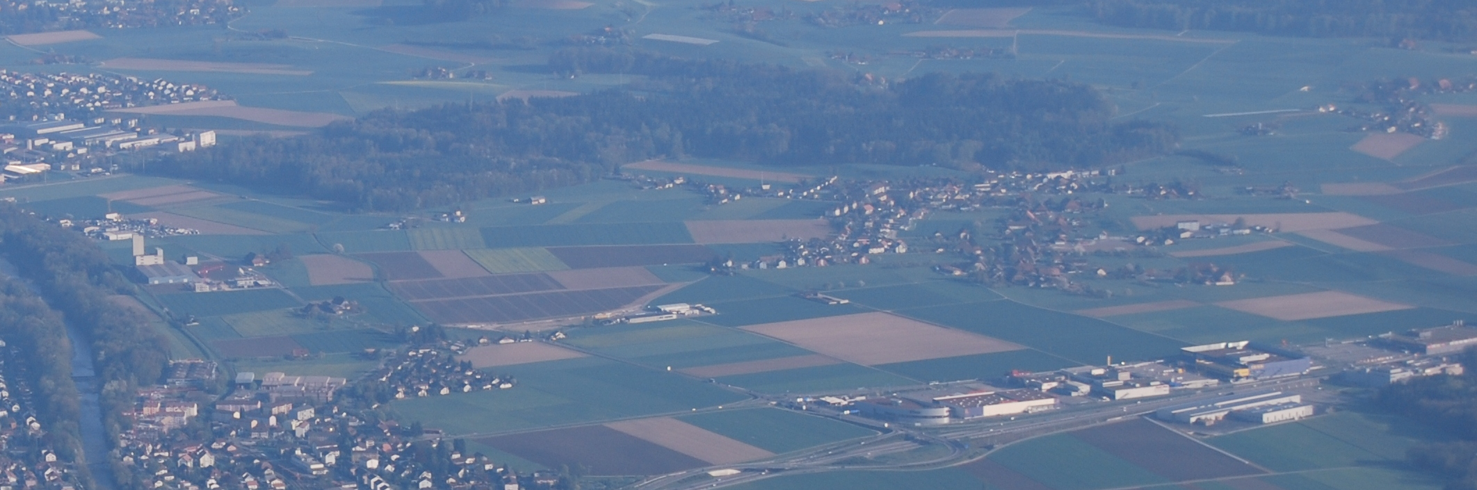 Lyssach, canton of Bern, Switzerland